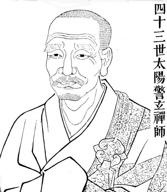 Drawing of Dayang Jingxuan, an early Song Dynasty Zen monk